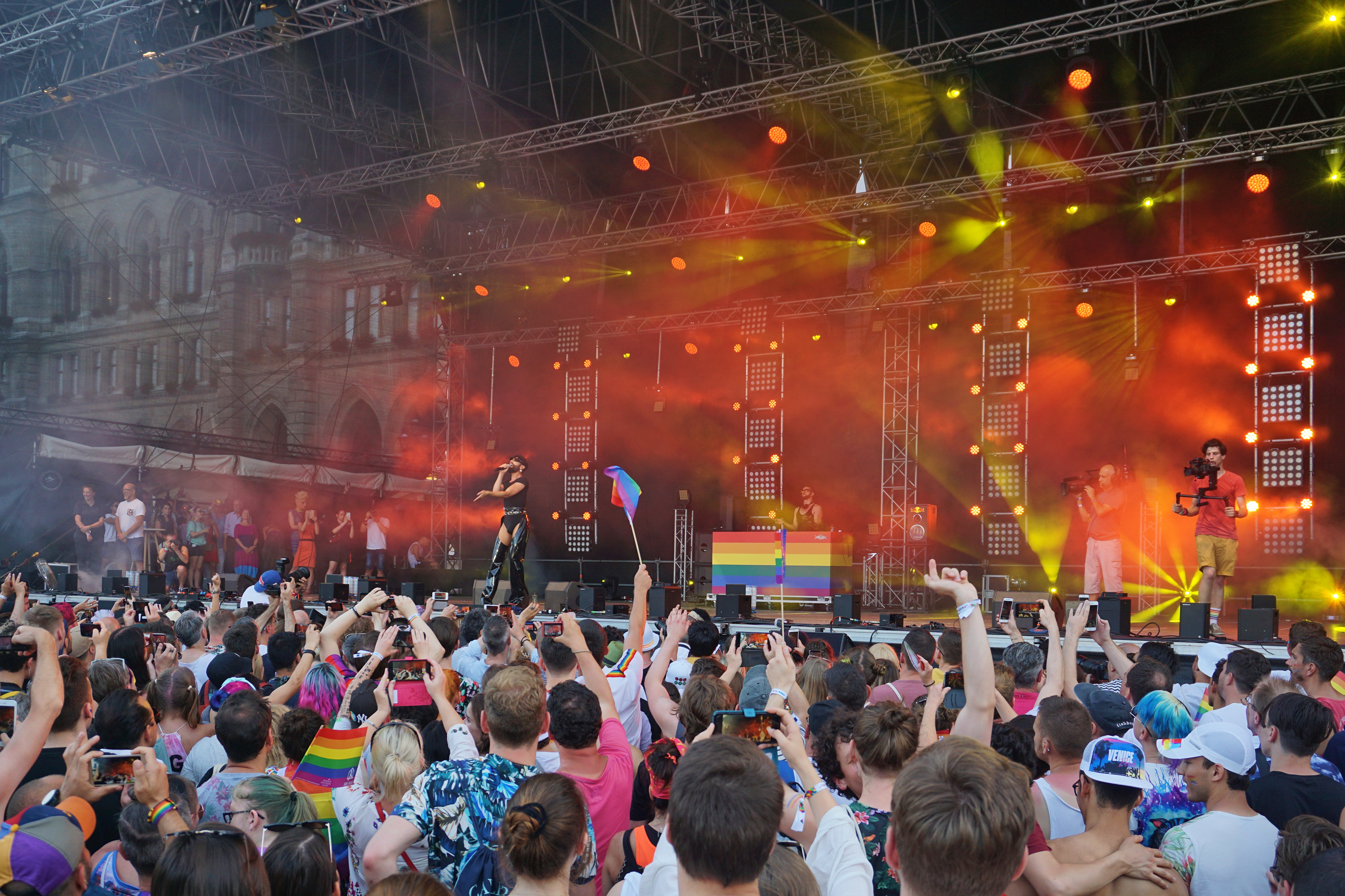 Europride Village 2019